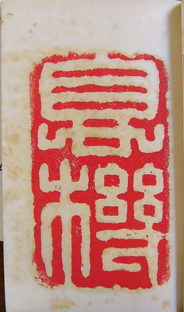 Ceramic Seal “SOKU KI” by TANABE GENGEN(（1796-1859) 14.5x8.2cm